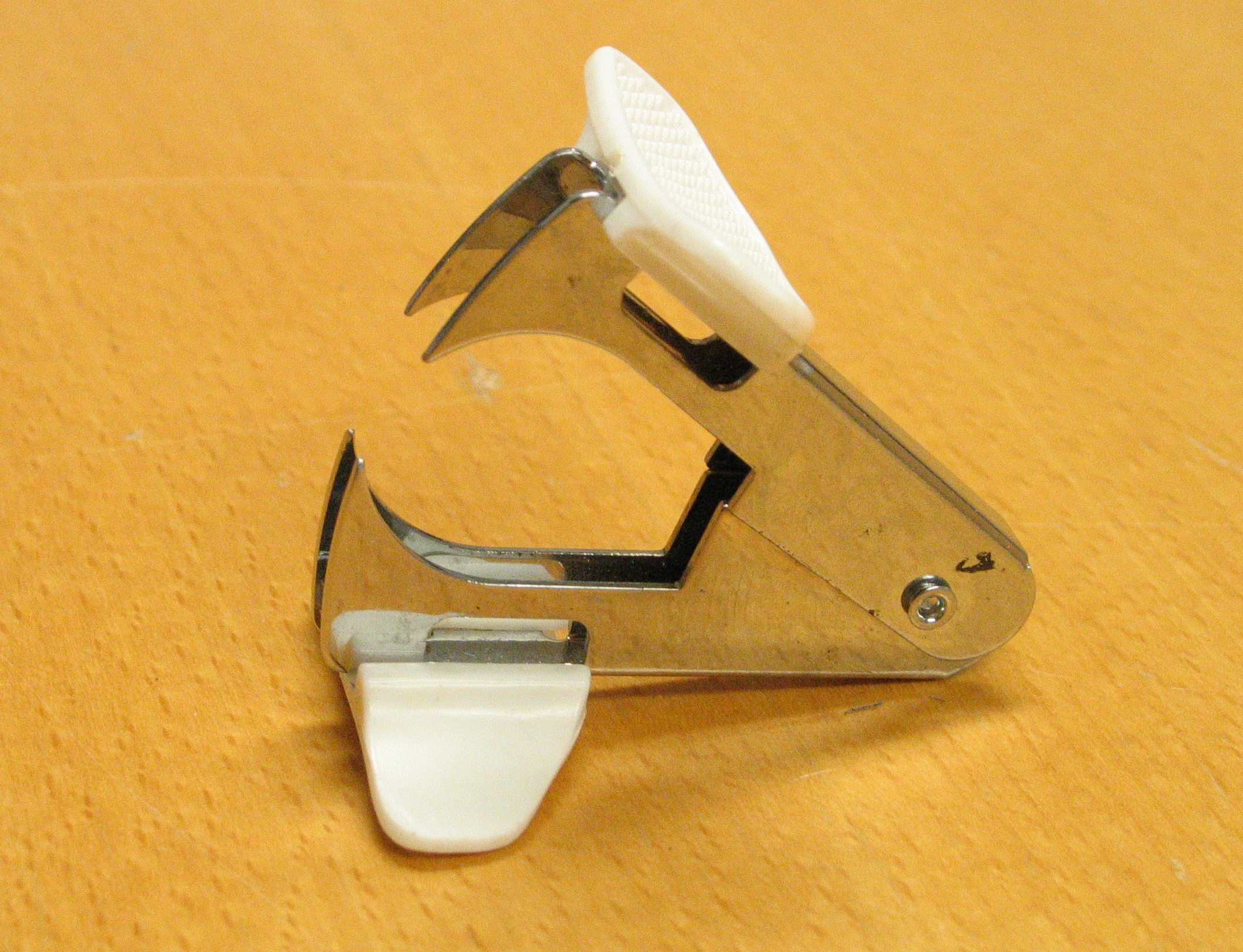 Staple remover.